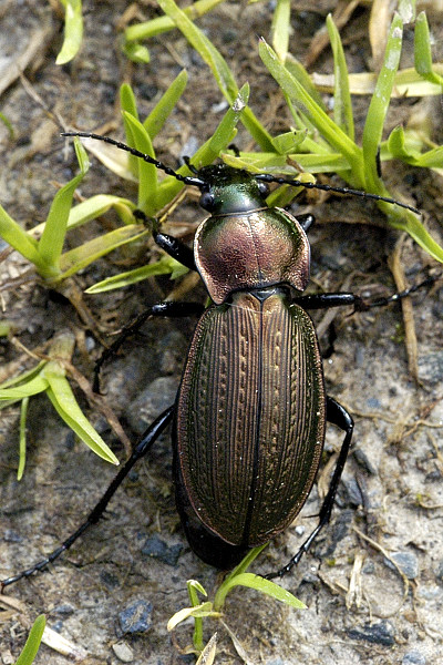 Picture taken in Commanster, Belgian High Ardennes . Species: Carabus monilis